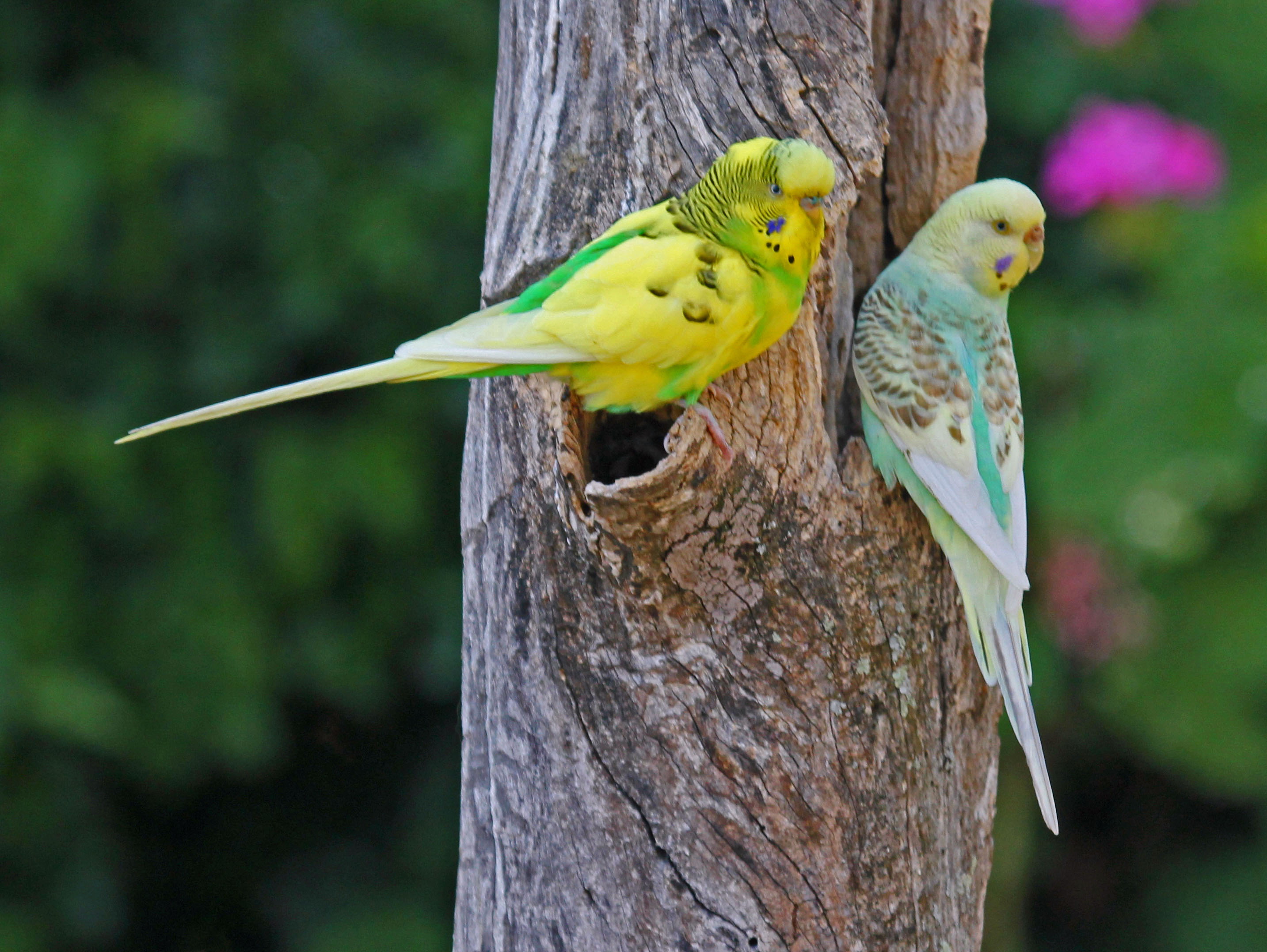 Budgerigar, also known as Budgie (Melopsittacus undulatus) - Birds of Eden, South Africa